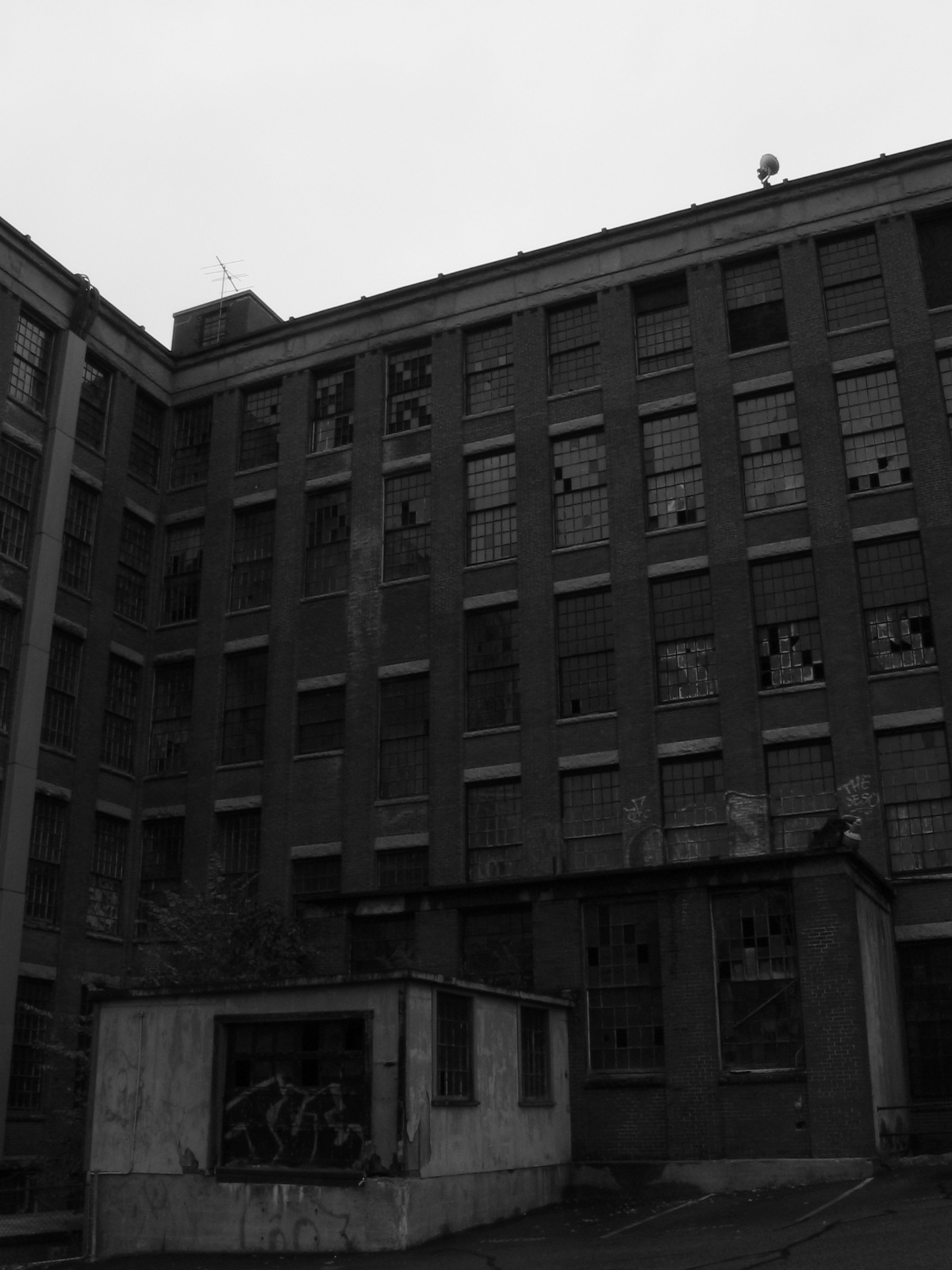 Abandoned foundry building in Providence, RI which dates back to the Blackstone Valley American Industrial Revolution. This photo was taken October 22 en:2005 with a Canon PowerShot A520.